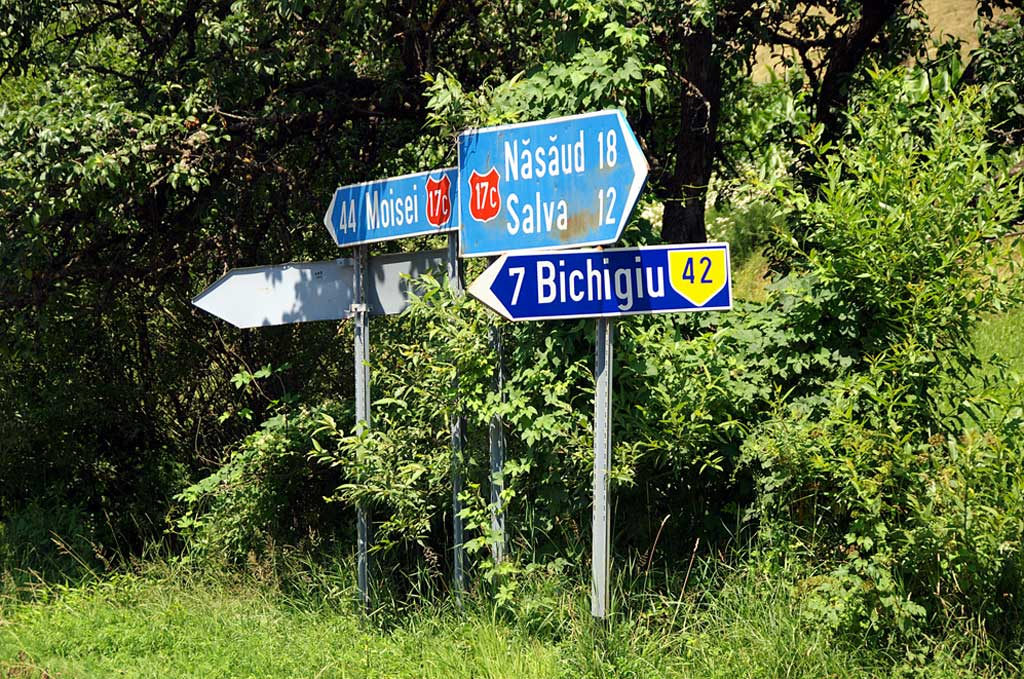 Bichigiu - Sign on Nationalstreet 17C